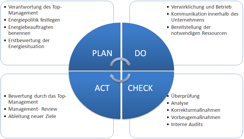 The picture describes the 4 phases of the PDCA circle based on the specification ISO 50001.